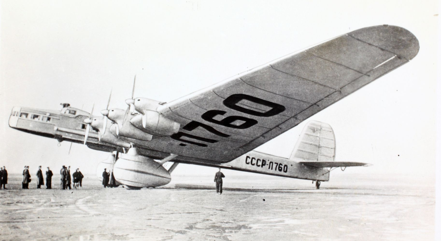 Catalog #: 15_002206 Title: Ant-20bis, PS-124 (L-760) Date: 1937 Collection: Charles M. Daniels Collection Photo Album Name: Soviet Aircraft Page #: 2 Tags: Soviet Aircraft, Charles Daniels, tupolev PUBLIC COMMONS.SOURCE INSTITUTION: San Diego Air and Space Museum Archive